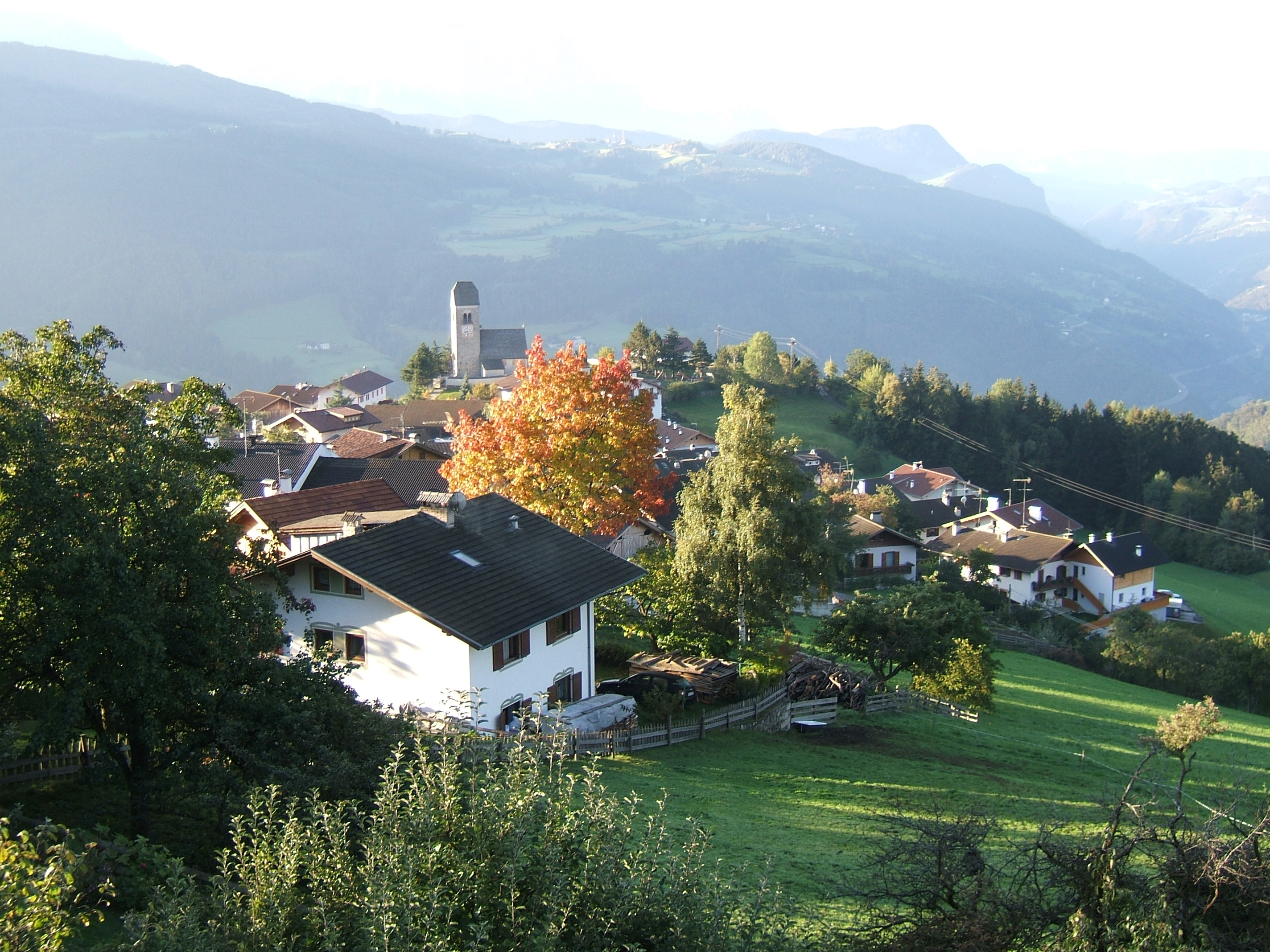 Verdings, a subdivision of Klausen, South Tyrol